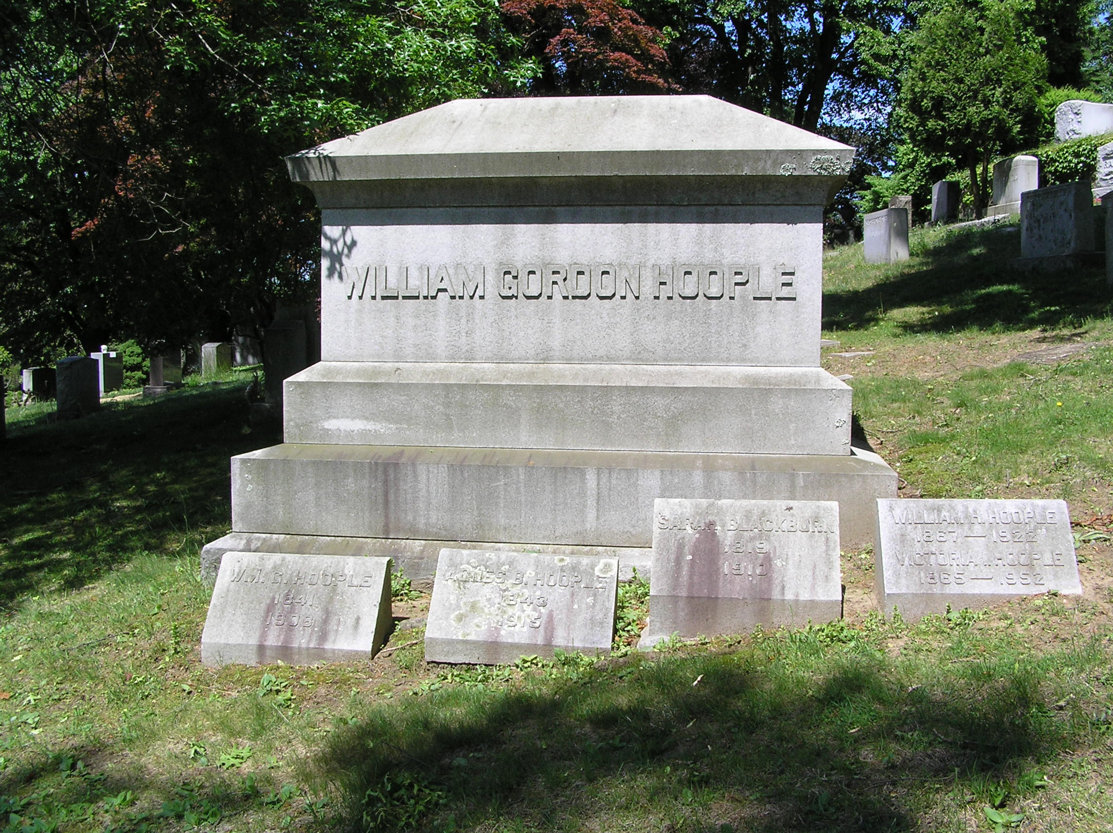 The gravesite of William Howard Hoople in Sleepy Hollow Cemetery